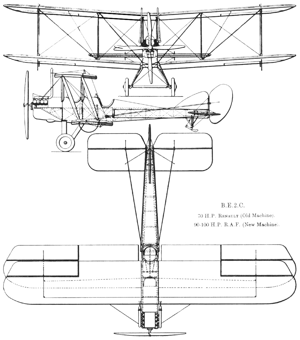 R.A.F. BE.2C British two seat first world war artillery spotting aircraft